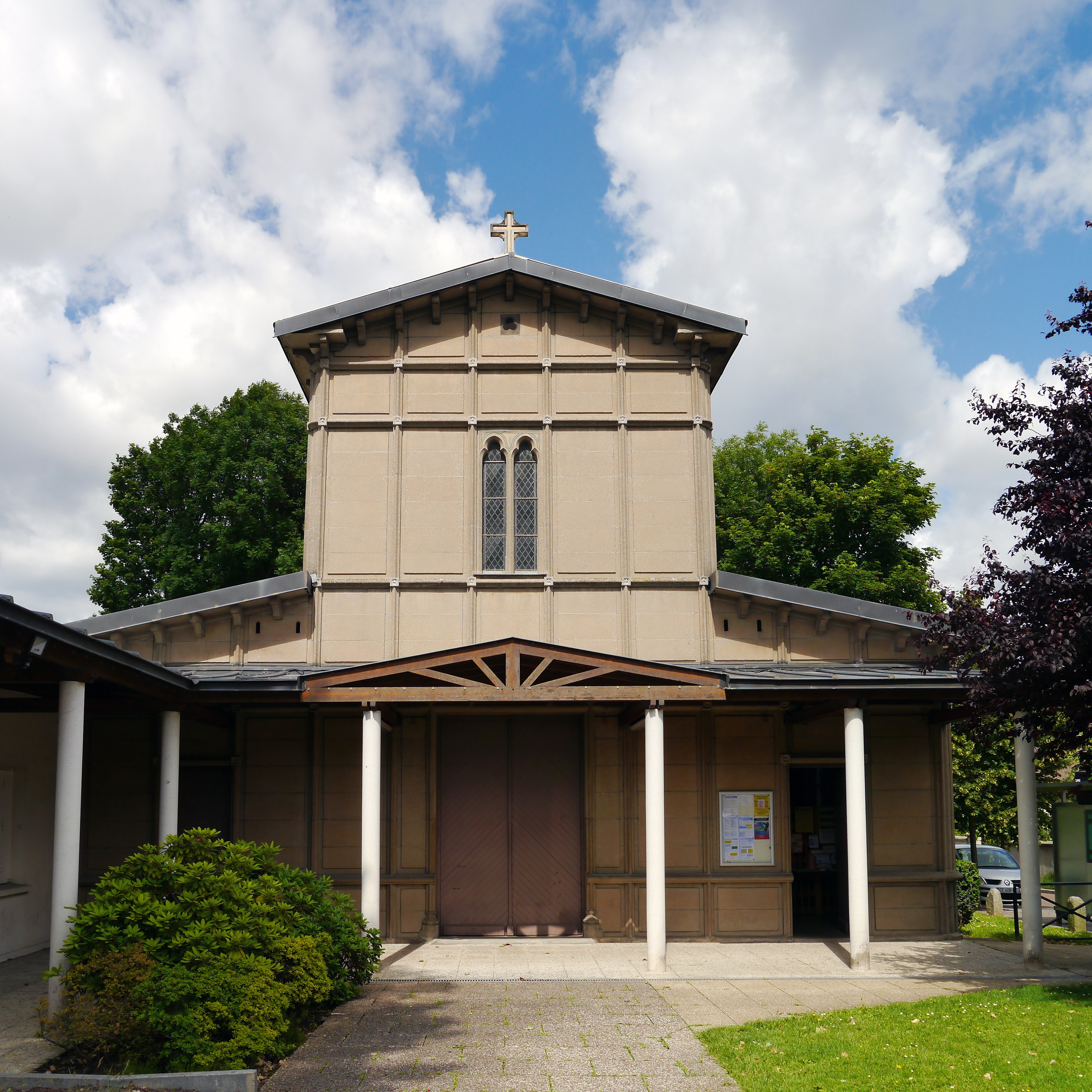 Rungis, Val-de-Marne, France. Église Notre-Dame-de-l'Assomption.